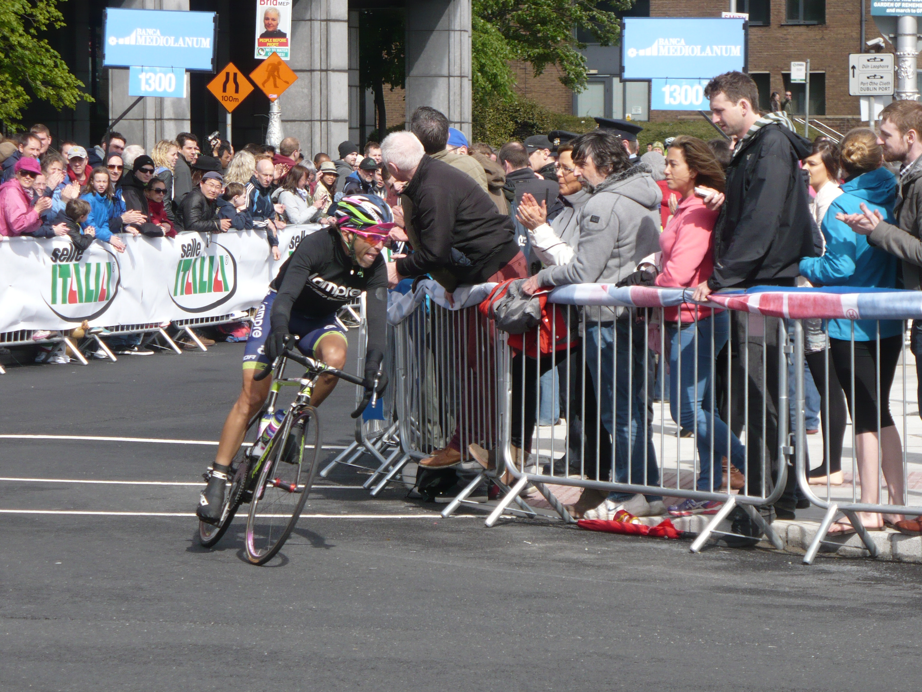 Rider chasing the pack during the third stage in the Giro d'Italia entering Memorial Bridge in Dublin, May 11th, 2014. Rider: Manuele Mori (Lampre)